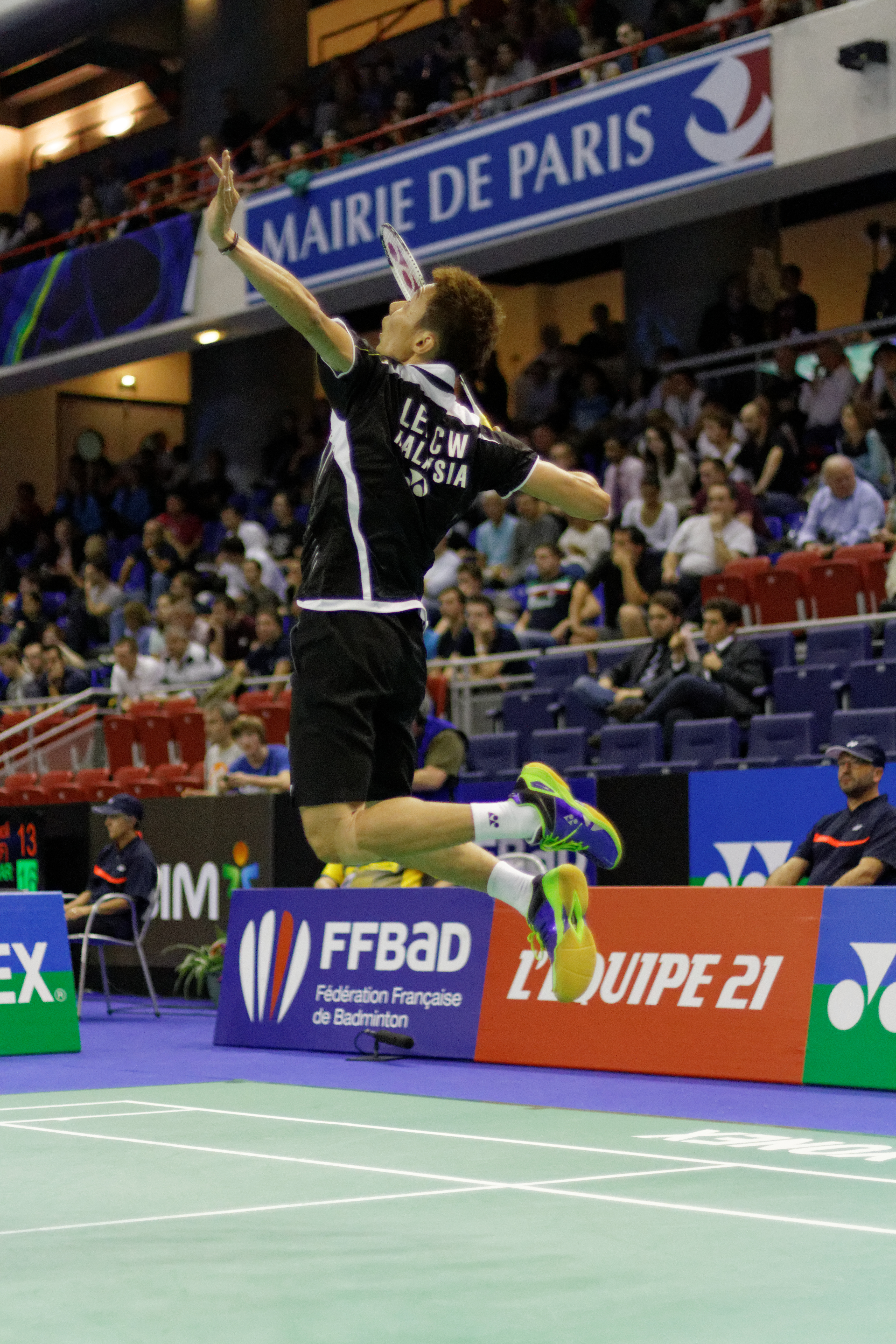 2013 French open. Men's singles quarterfinal. Lee Chong Wei vs Boonsak Ponsana.